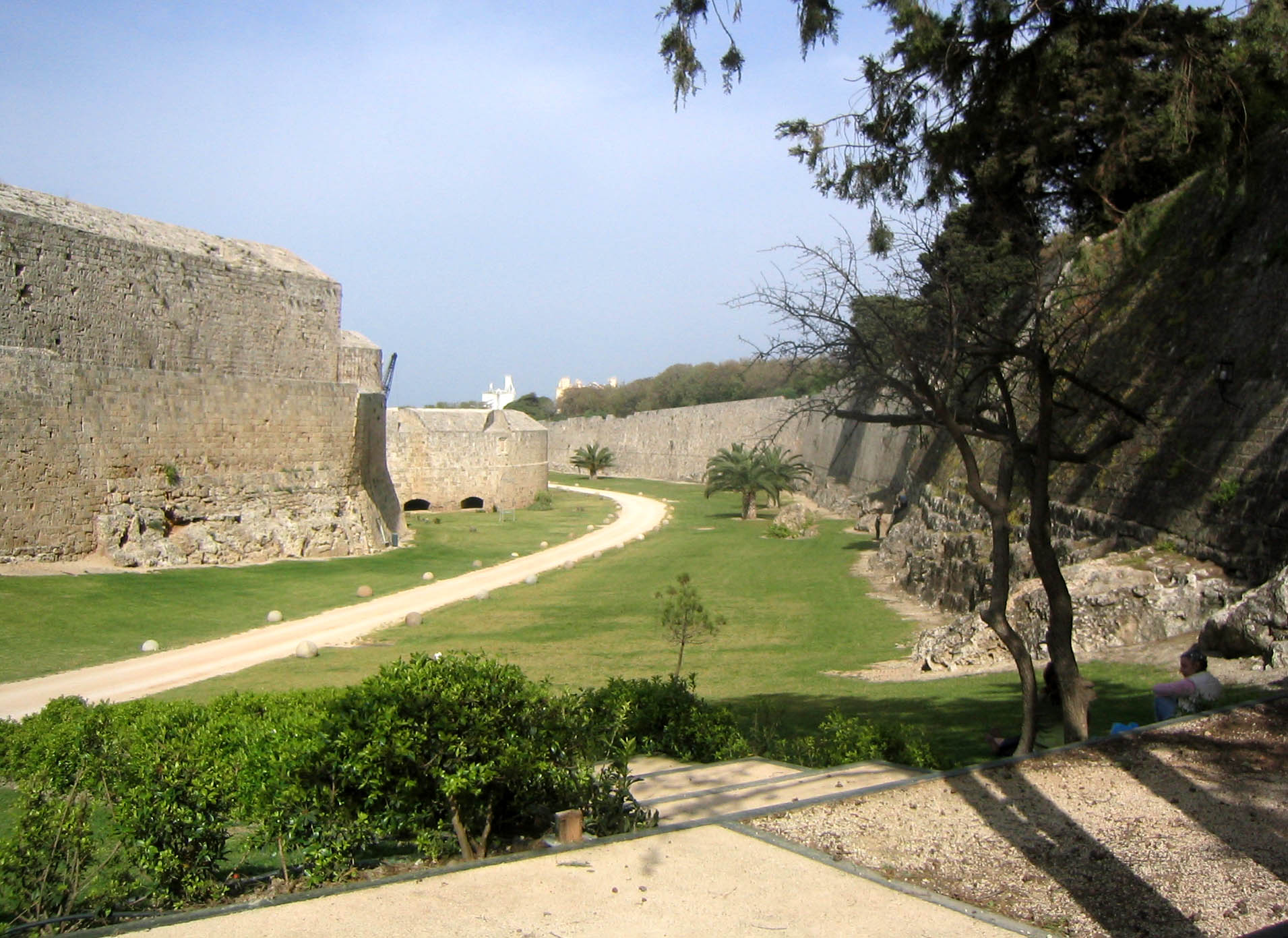 Fortification and city walls around Rhodes